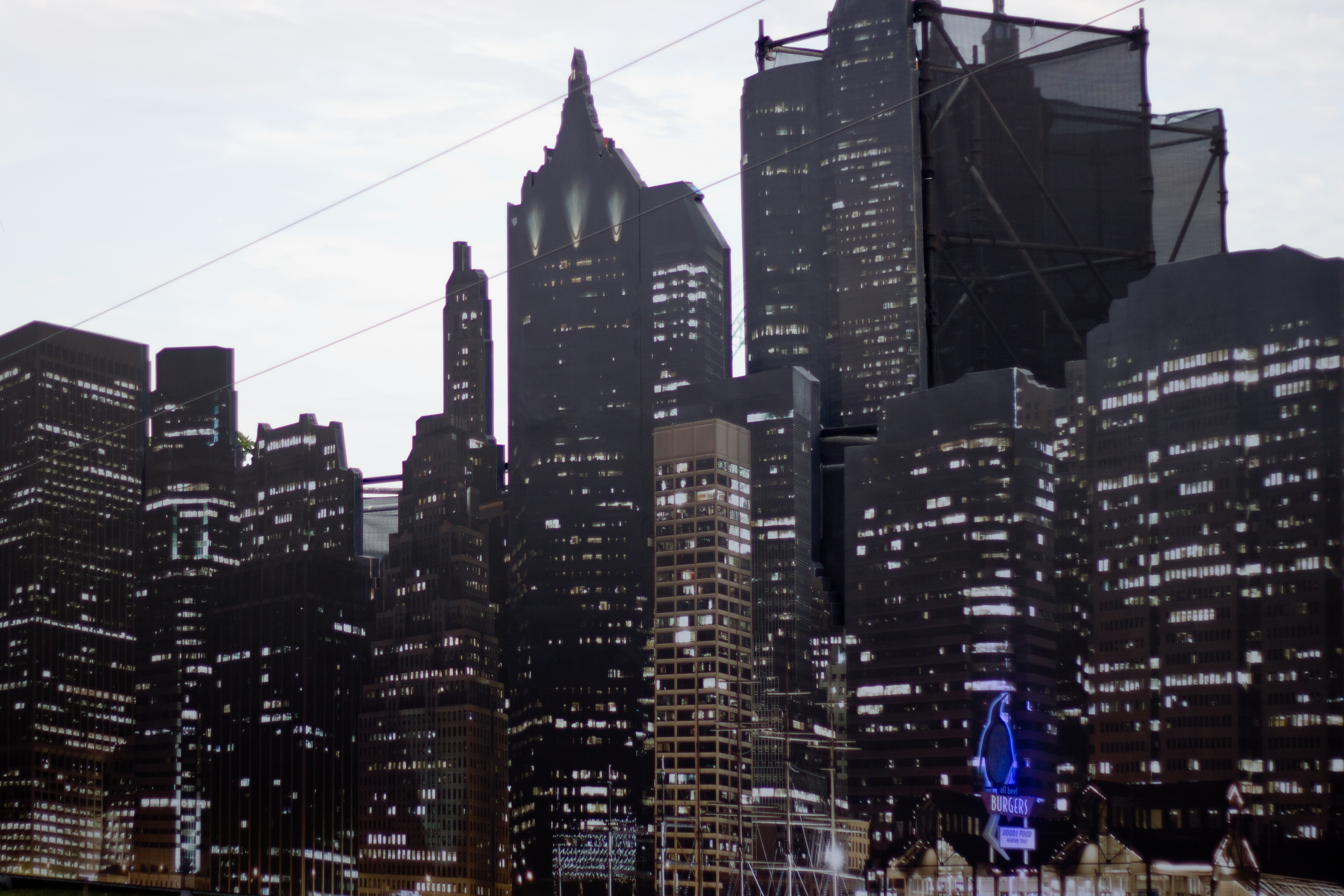 The backdrop for Gotham City used in TV show, "Gotham"